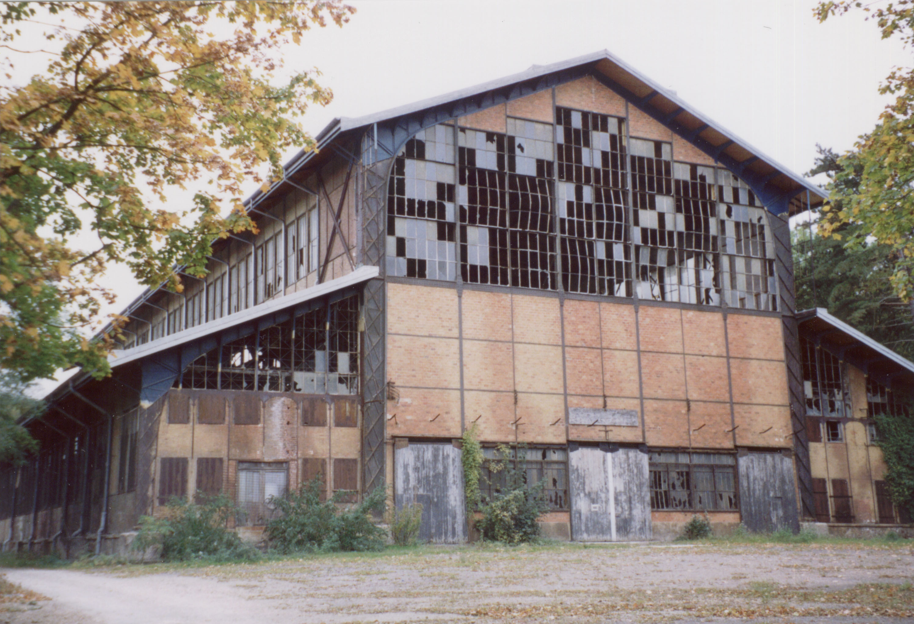 "Hangar Y", an airship shed in Chalais-Meudon near Paris, France.